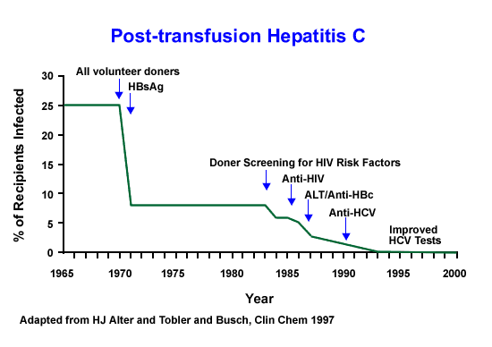 Hepatitis C: Slide Set: 1 | CDC Viral Hepatitis